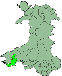 Wales- South pembroke district - 1974